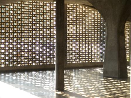 Grille at hall at Universidad Central de Venezuela, Caracas. Modern movement art + architecture in Venezuela.